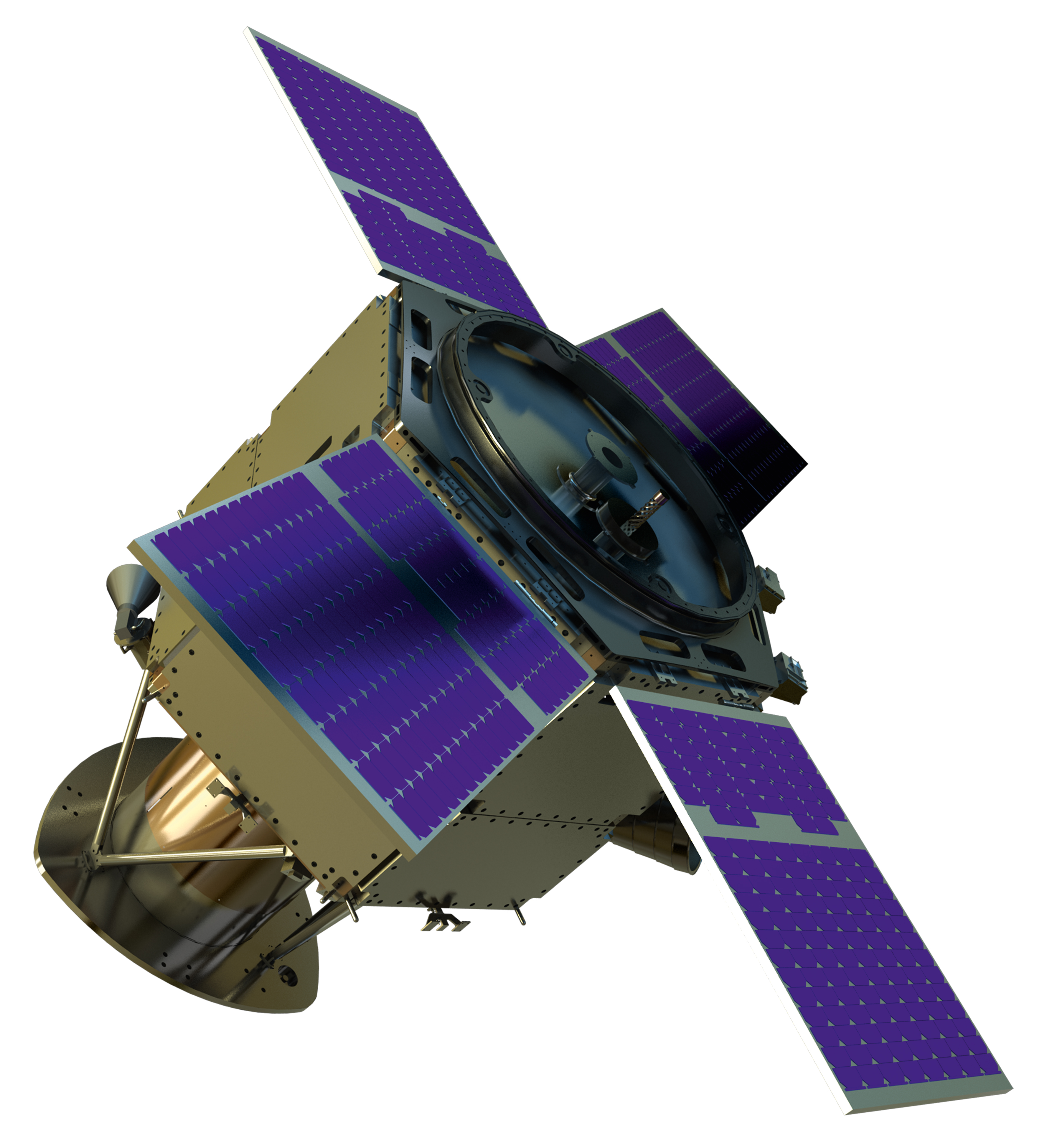 KhalifaSat, UAE's most advanced satellite, being manufactured by Emirati engineers